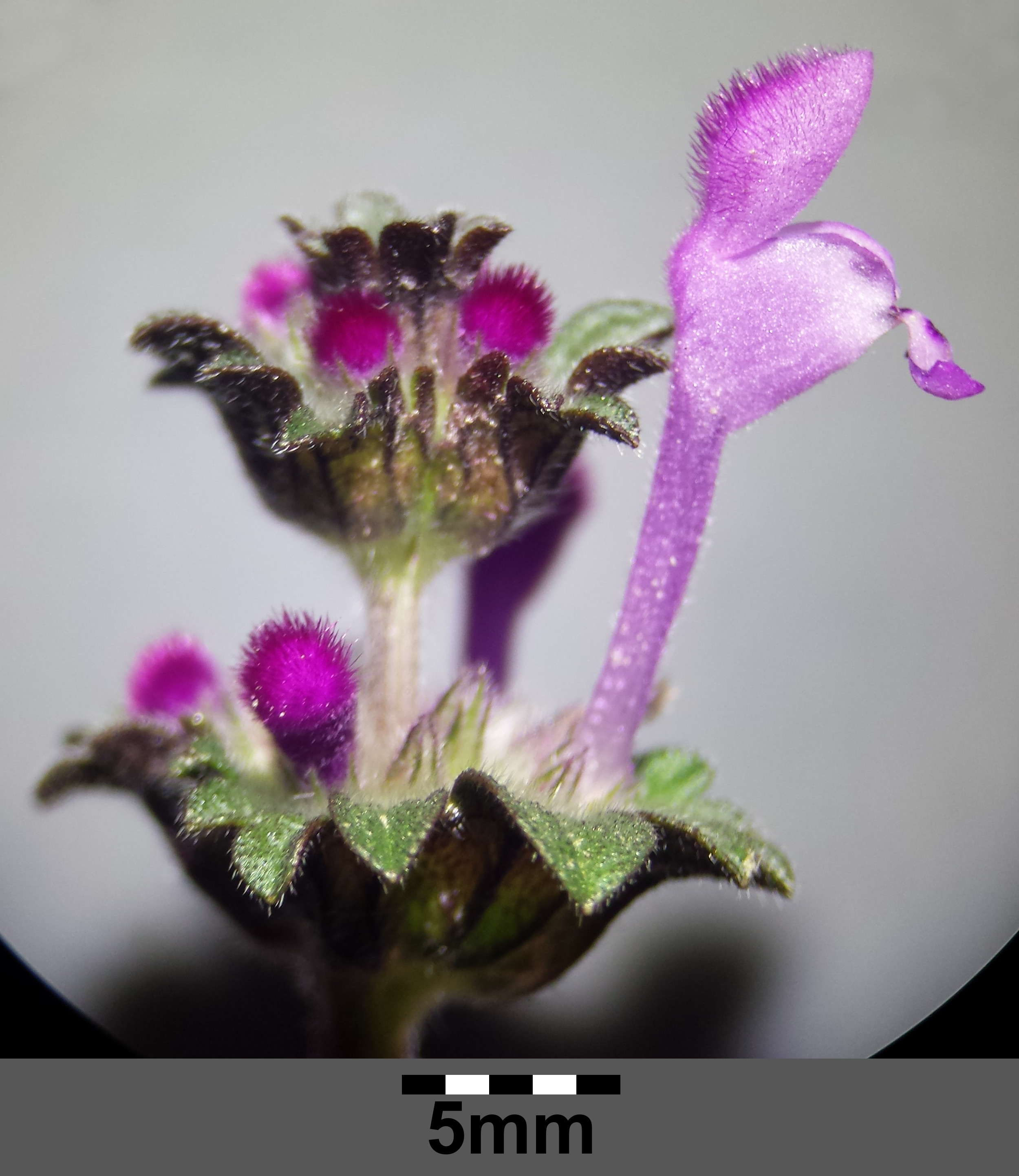 Inflorescence with buds/cleistogamous flowers and one opened, chasmogamous flower Taxonym: Lamium amplexicaule ss Fischer et al. EfÖLS 2008 ISBN 978-3-85474-187-9 Location: near Alte Schanzen, Floridsdorf, Vienna - ca. 200 m a.s.l. Habitat: wine yard